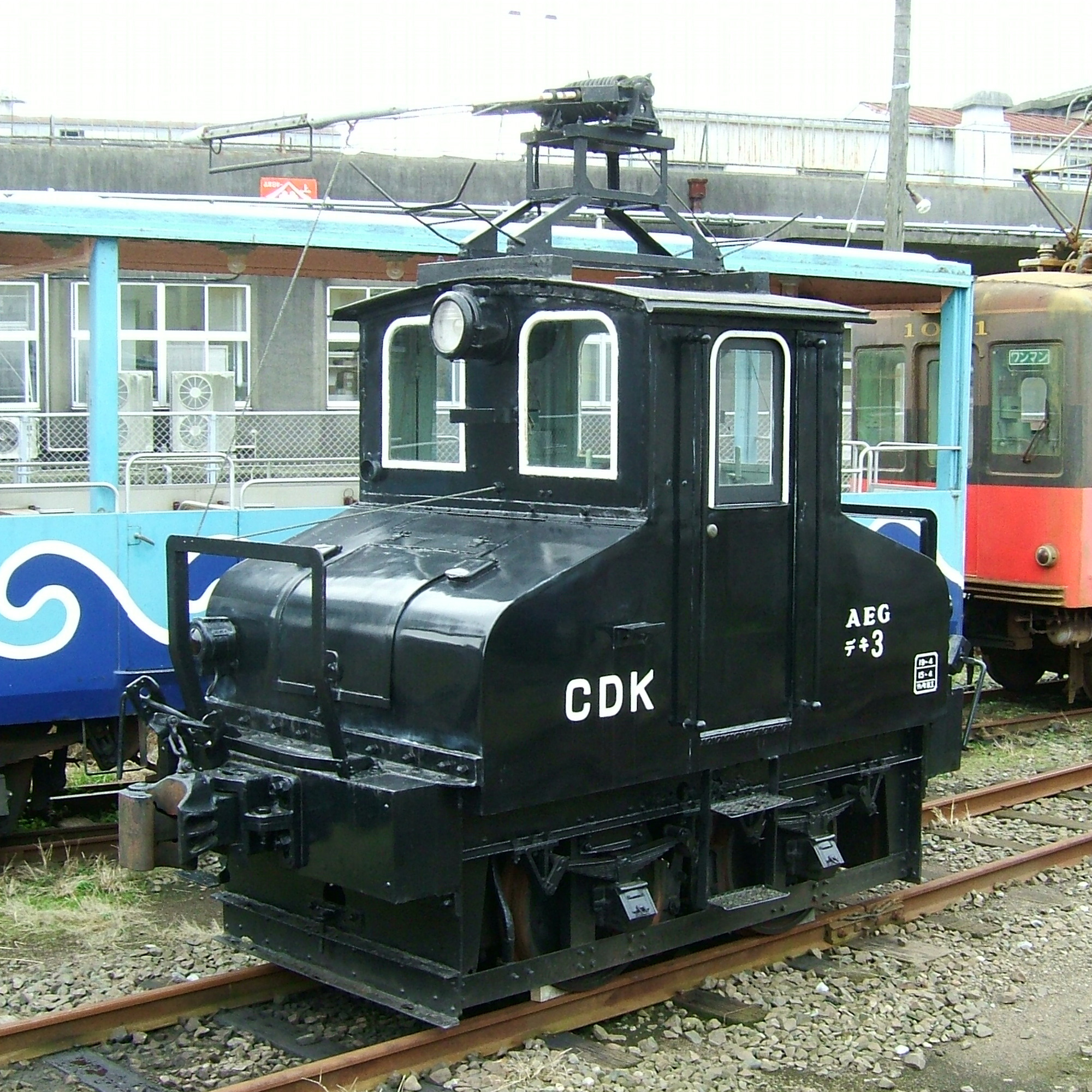 Choshi Electric Railway DeKi 3 electric locomotive at Nakanocho Depot